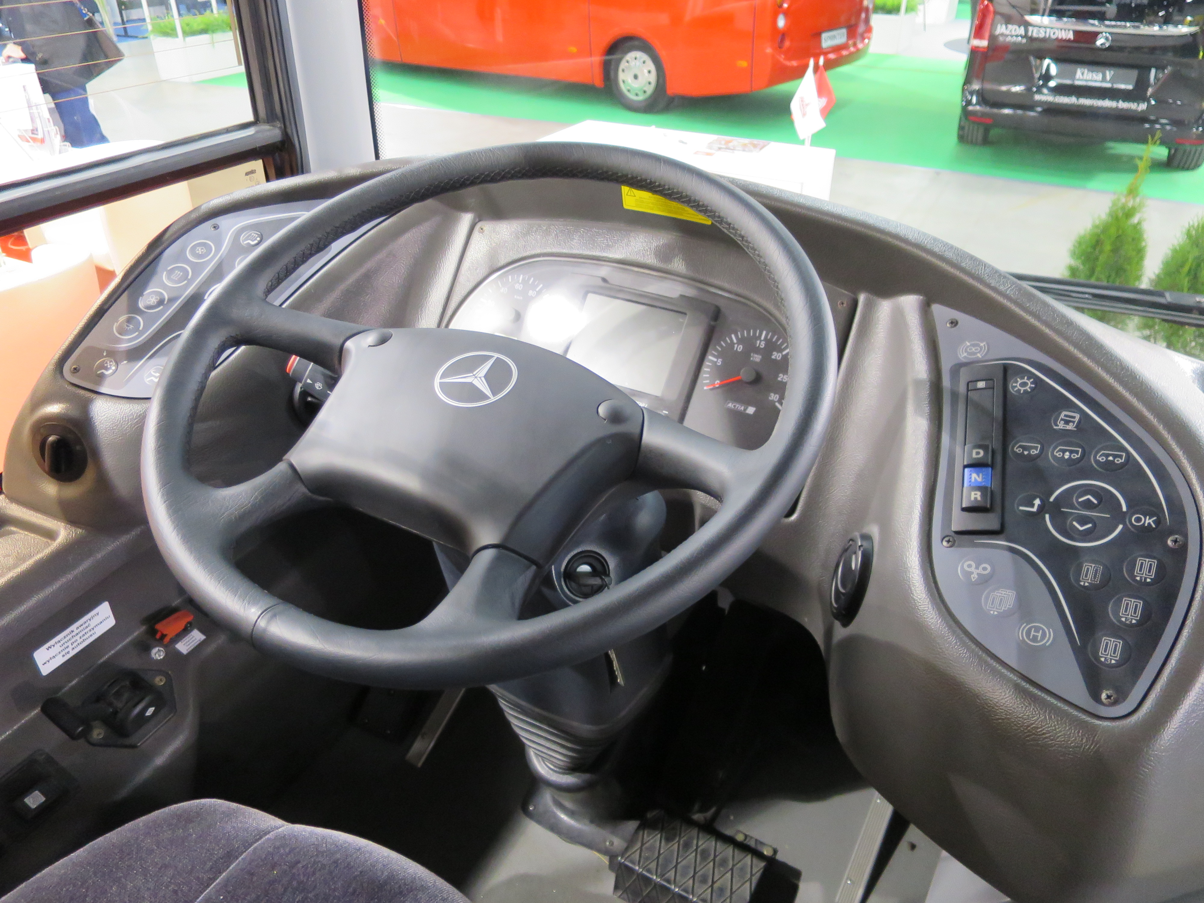 The making of this document was supported by Wikimedia Polska Association, within Wikigrant no. WG 2016-45. MAZ-203